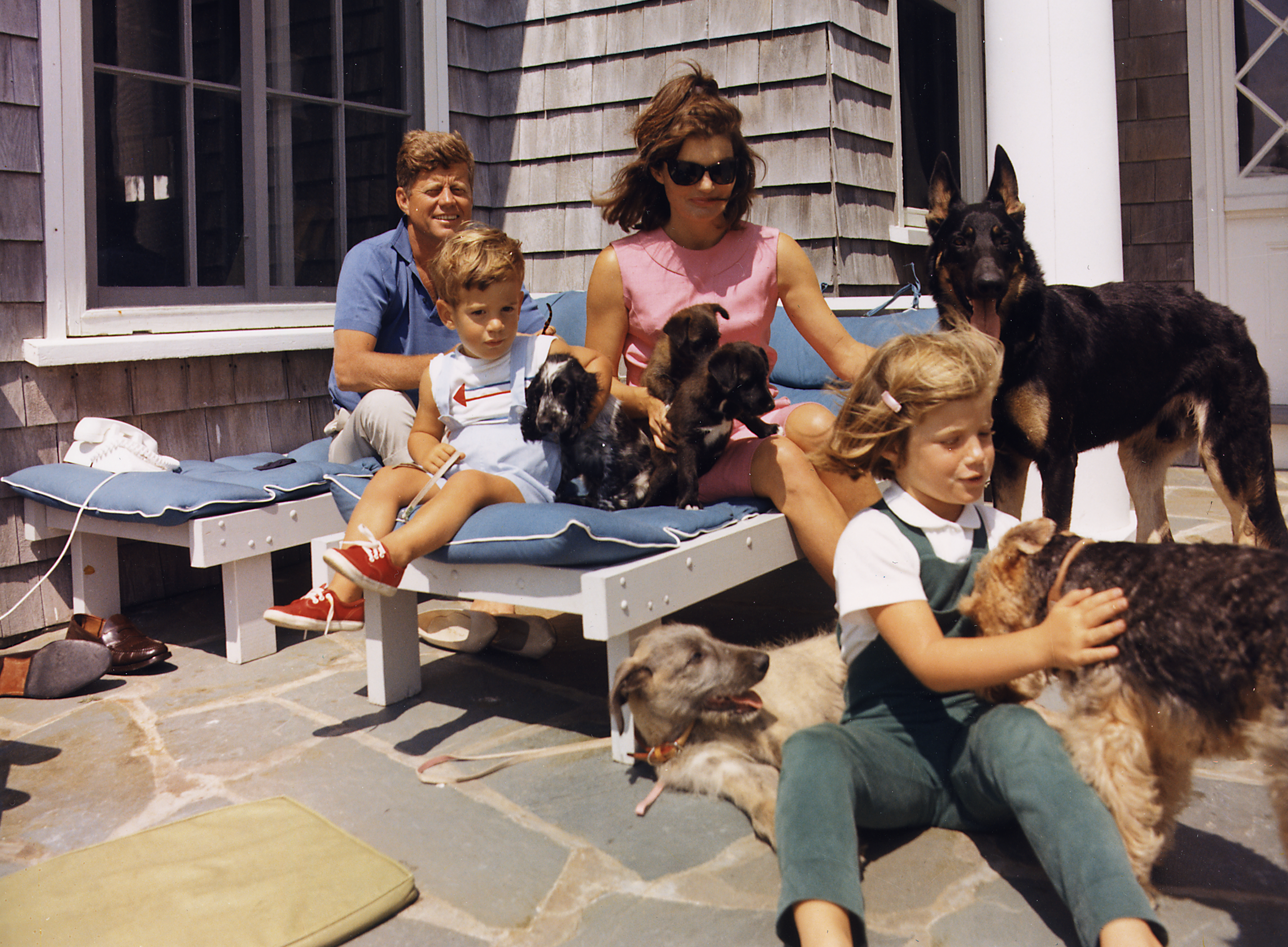 Hyannisport Weekend. President Kennedy, John F. Kennedy Jr., Mrs. Kennedy, Caroline Kennedy. Dogs: Clipper ( standing ), Charlie ( with Caroline ), Wolf ( reclining ), Shannon ( with John Jr. ), two of Pushinka's puppies ( with Mrs. Kennedy ).